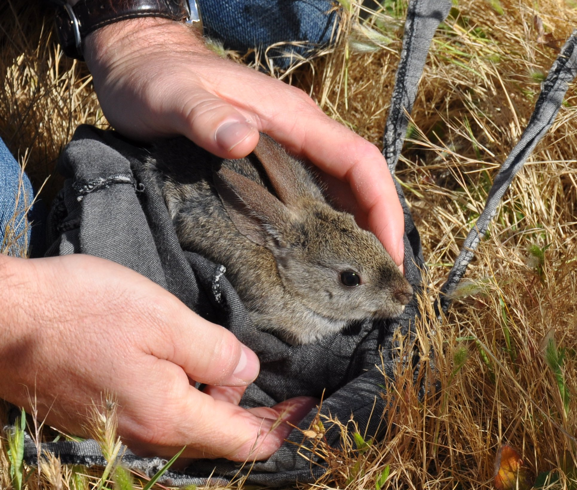 This tiny juvenile female will be tagged and is being processed for biometric info at breeding pens run by CSU Stanislaus in San Joaquin County. The rabbit is part of a program to help supplement populations at the San Joaquin National Wildlife Refuge. USFWS photo/Brian Hansen